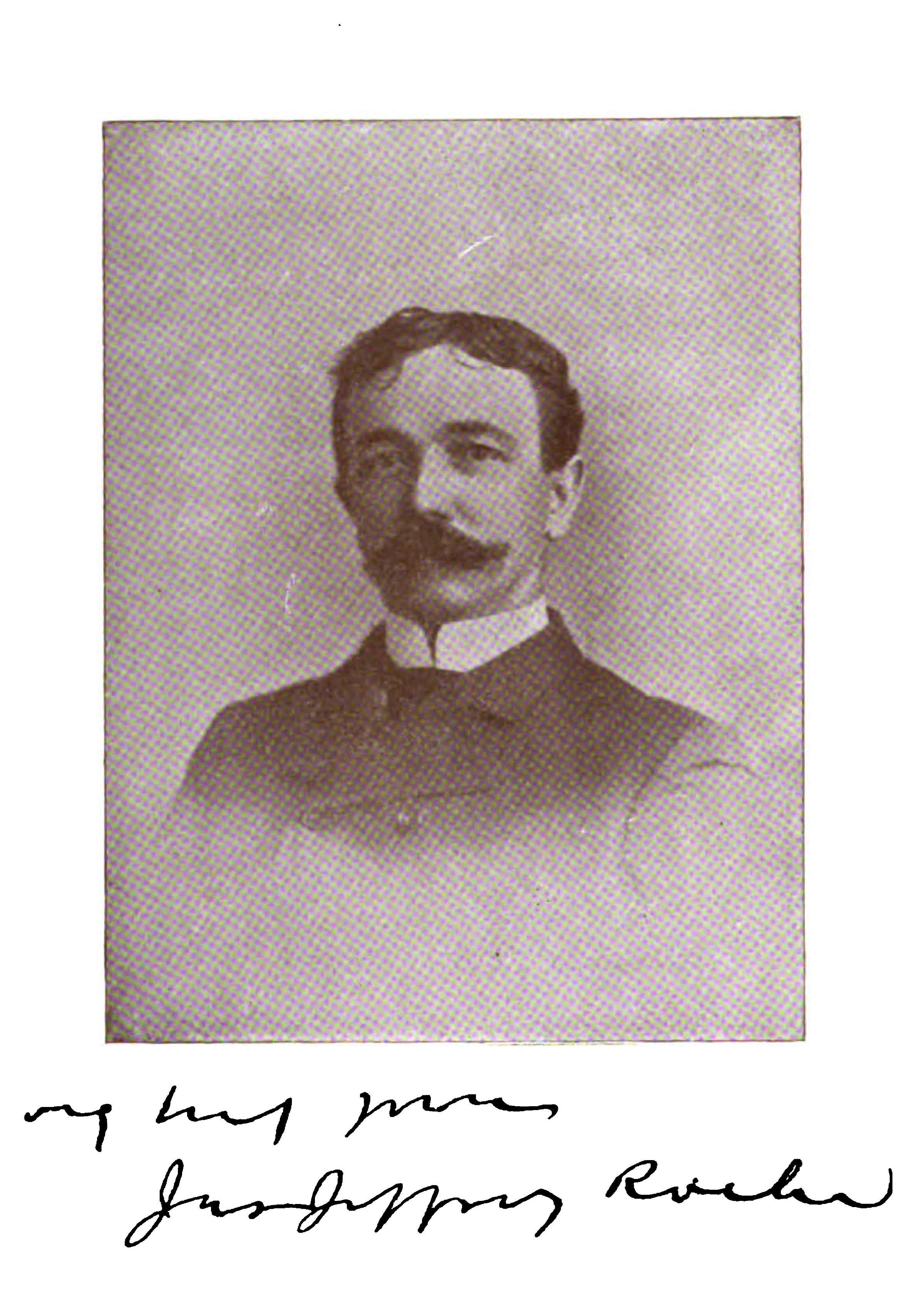 James Jeffrey Roche (31 May 1847, Mountmellick, Queen's County, Ireland – 3 April 1908, Berne, Switzerland) was an Irish-American poet, journalist and diplomat.